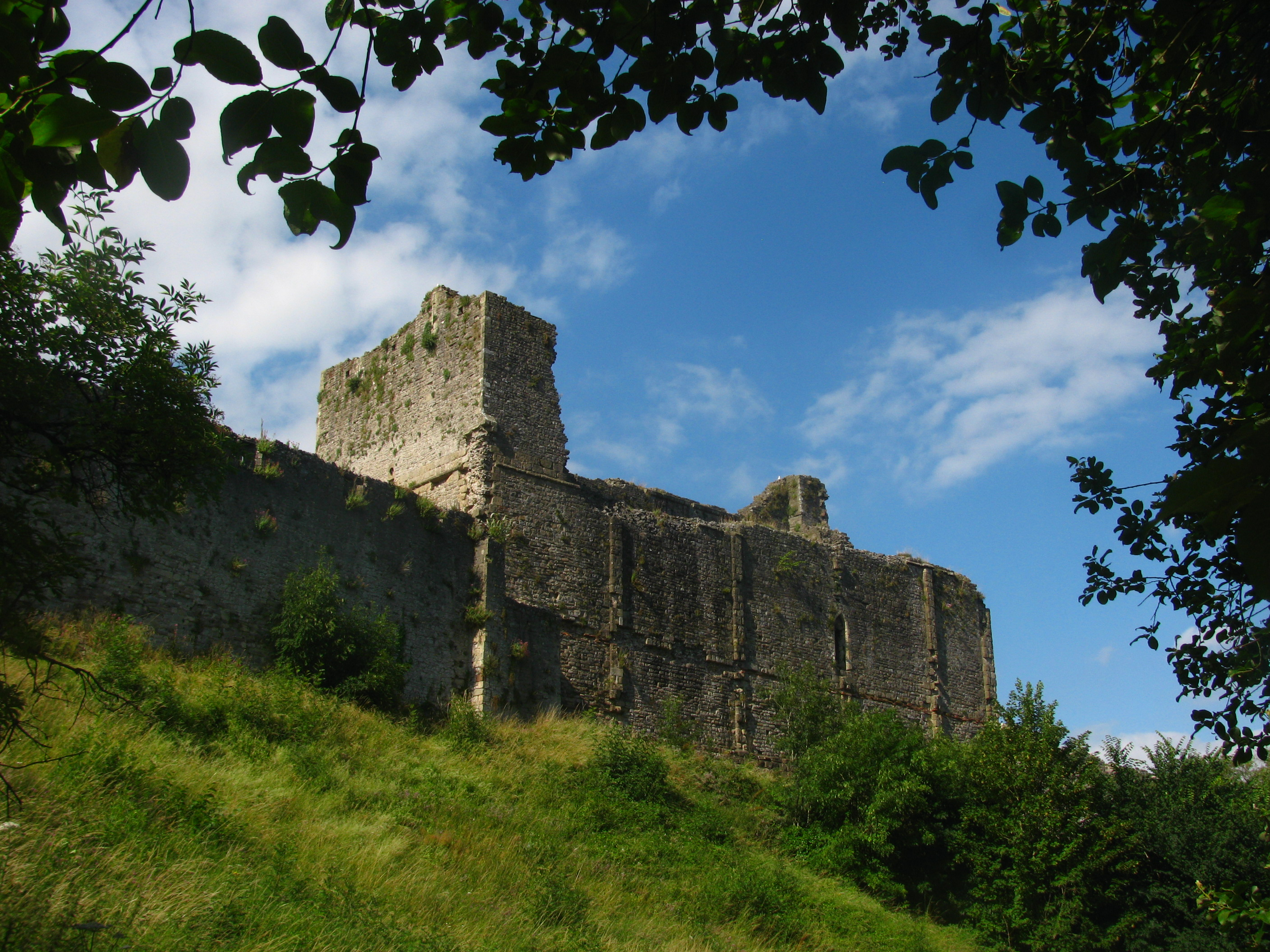 Chepstow Castle Wikidata has entry Q17741256 with data related to this building.